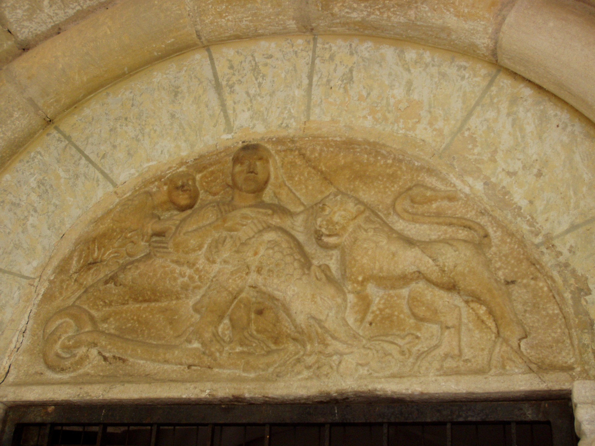 Lieding, parish church St. Margaretha, tympanon at the main entrance/Lieding Pfarrkirche hl. Margaretha, Tympanon am Westportal